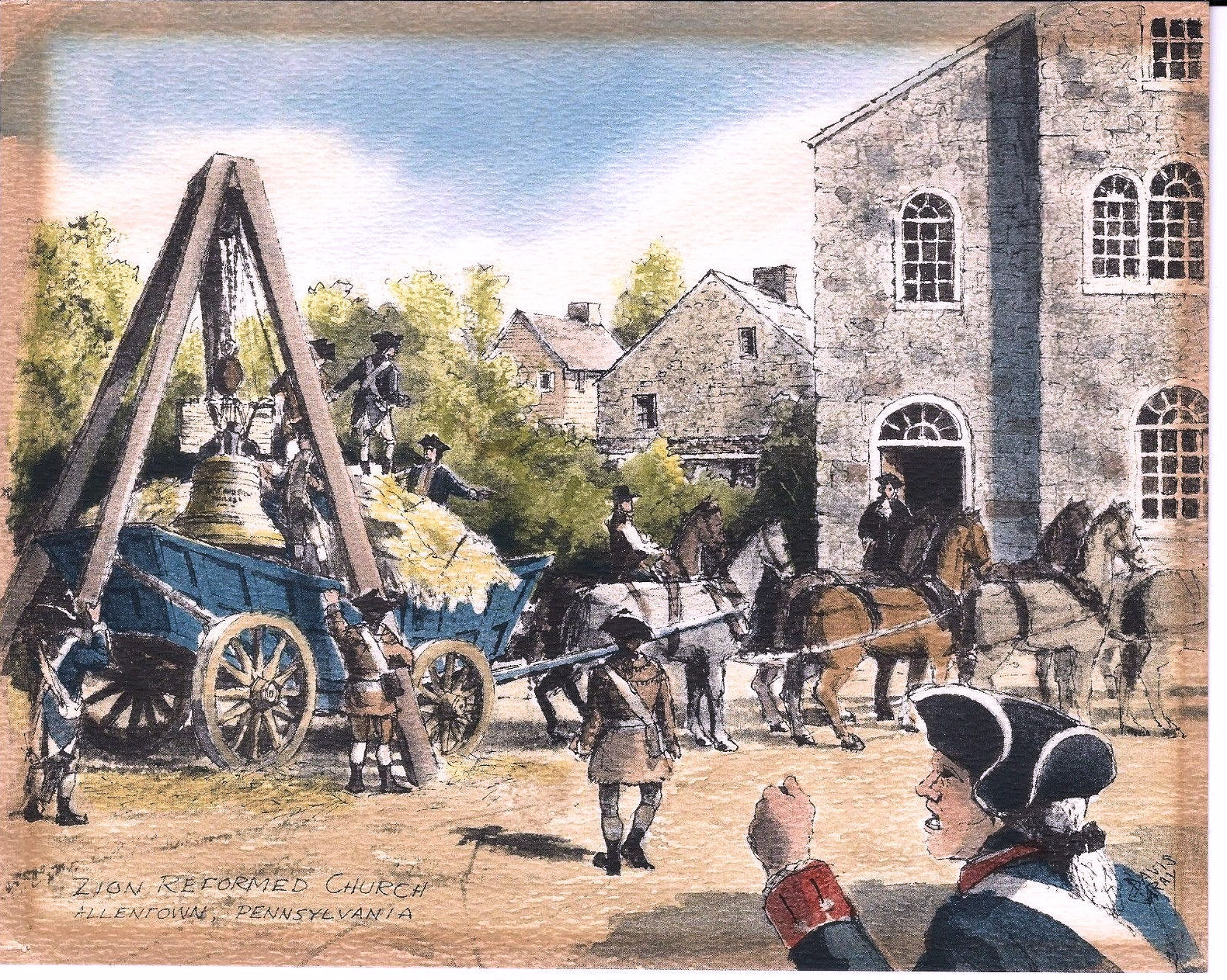 Reproduction of a watercolor by Davis Gray of the arrival of the Liberty Bell at Zions Church, in Northampton Town, Pennsylvania on 24 September 1777. (Holdings of the Lehigh County Historical Society)